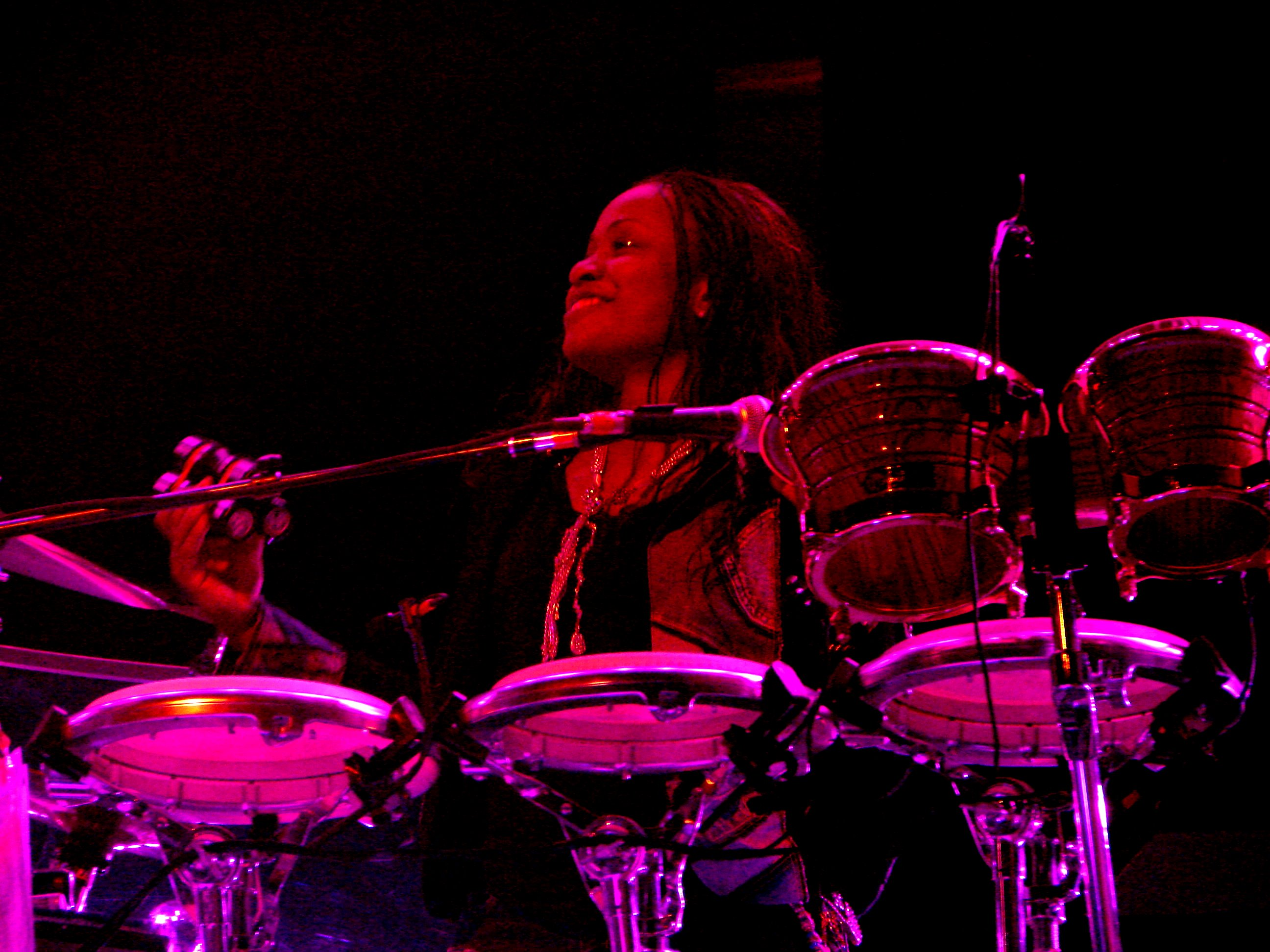 Mark Rivera, Crystal Taliefero and Carl Fischer of the Billy Joel Band, 4 May 2007, Auburn Hills, Michigan, The Palace Of Auburn Hills